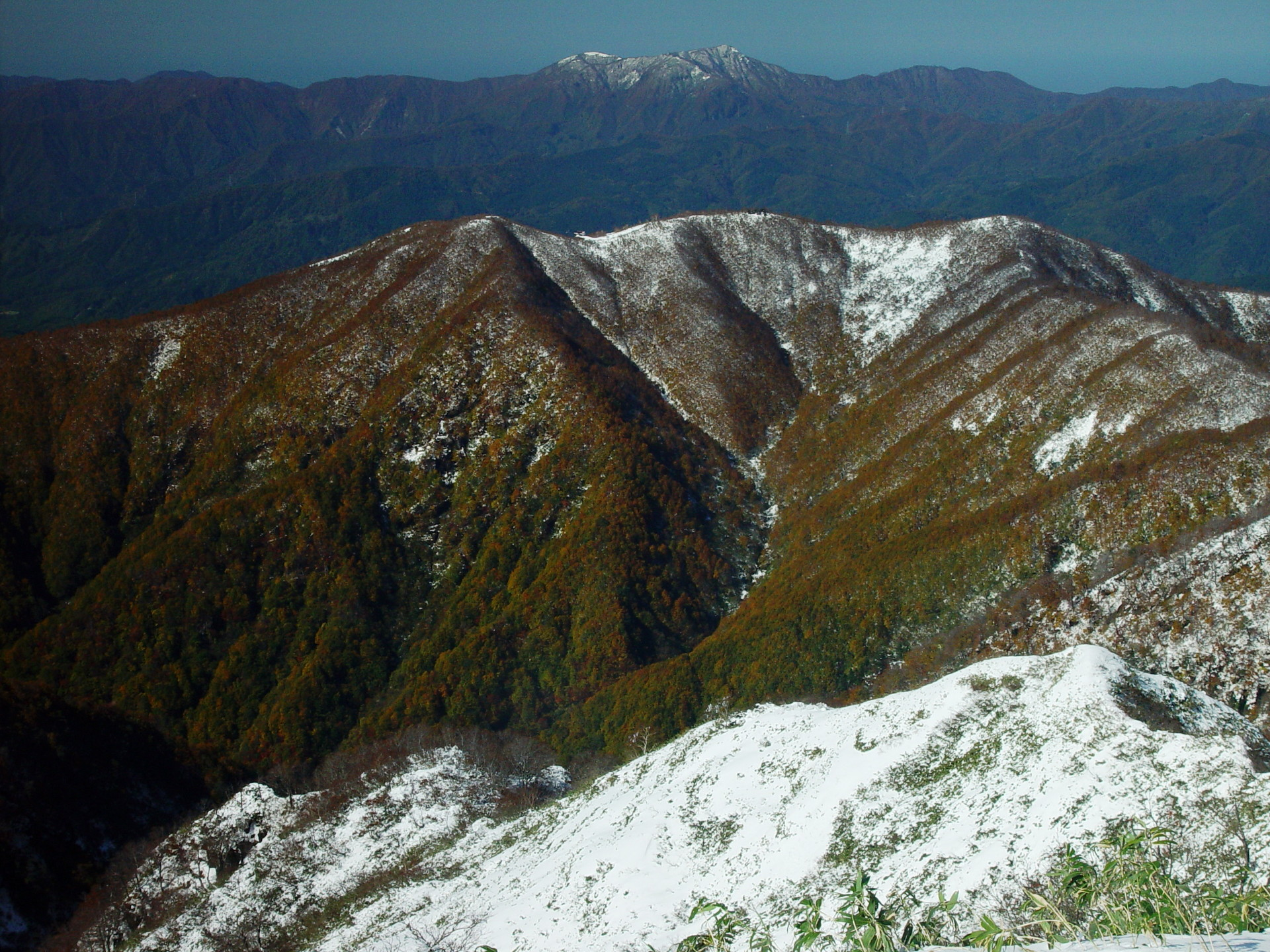 Mount Dainichi and Mount Hōonji seen from Mount Kyō, in Ryōhaku Mountains, Japan.